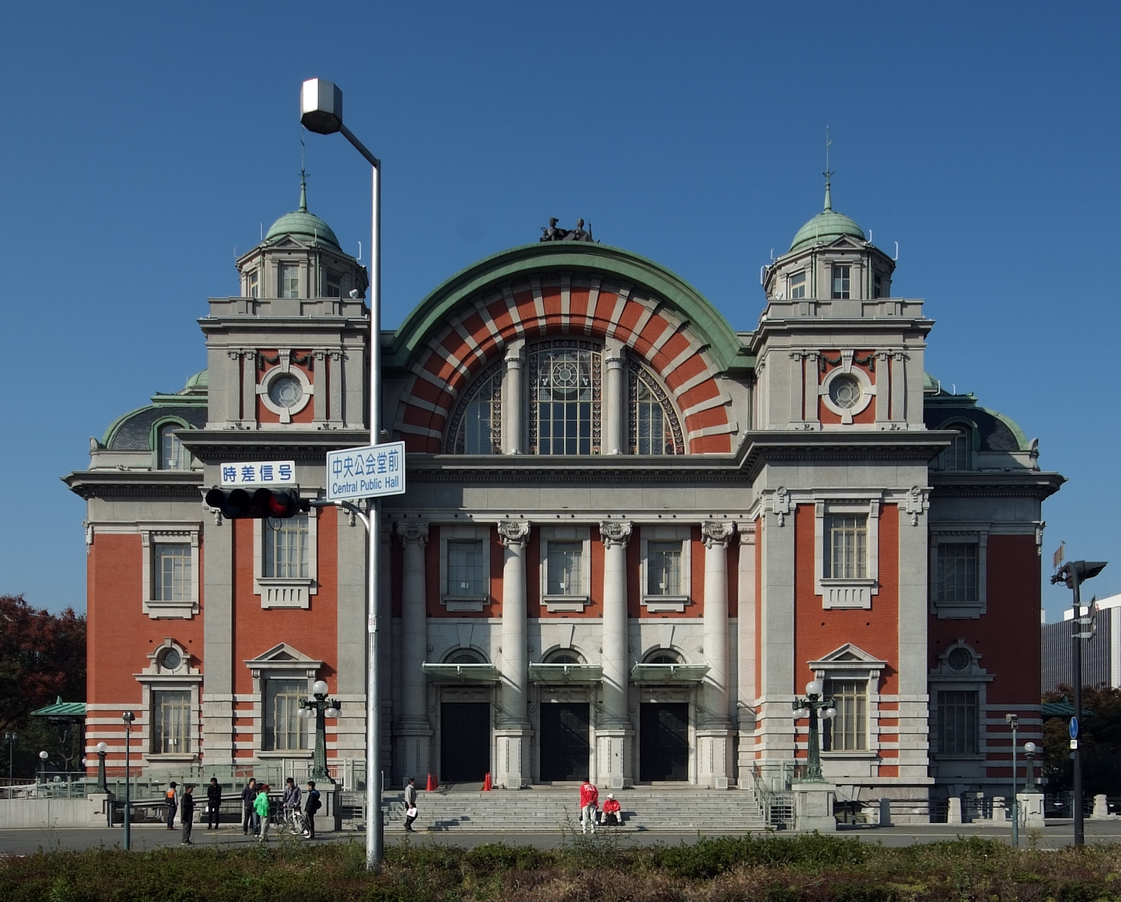 Osaka Central Public Hall in Nakanoshima, Kita-ku, Osaka, Osaka prefecture, Japan.